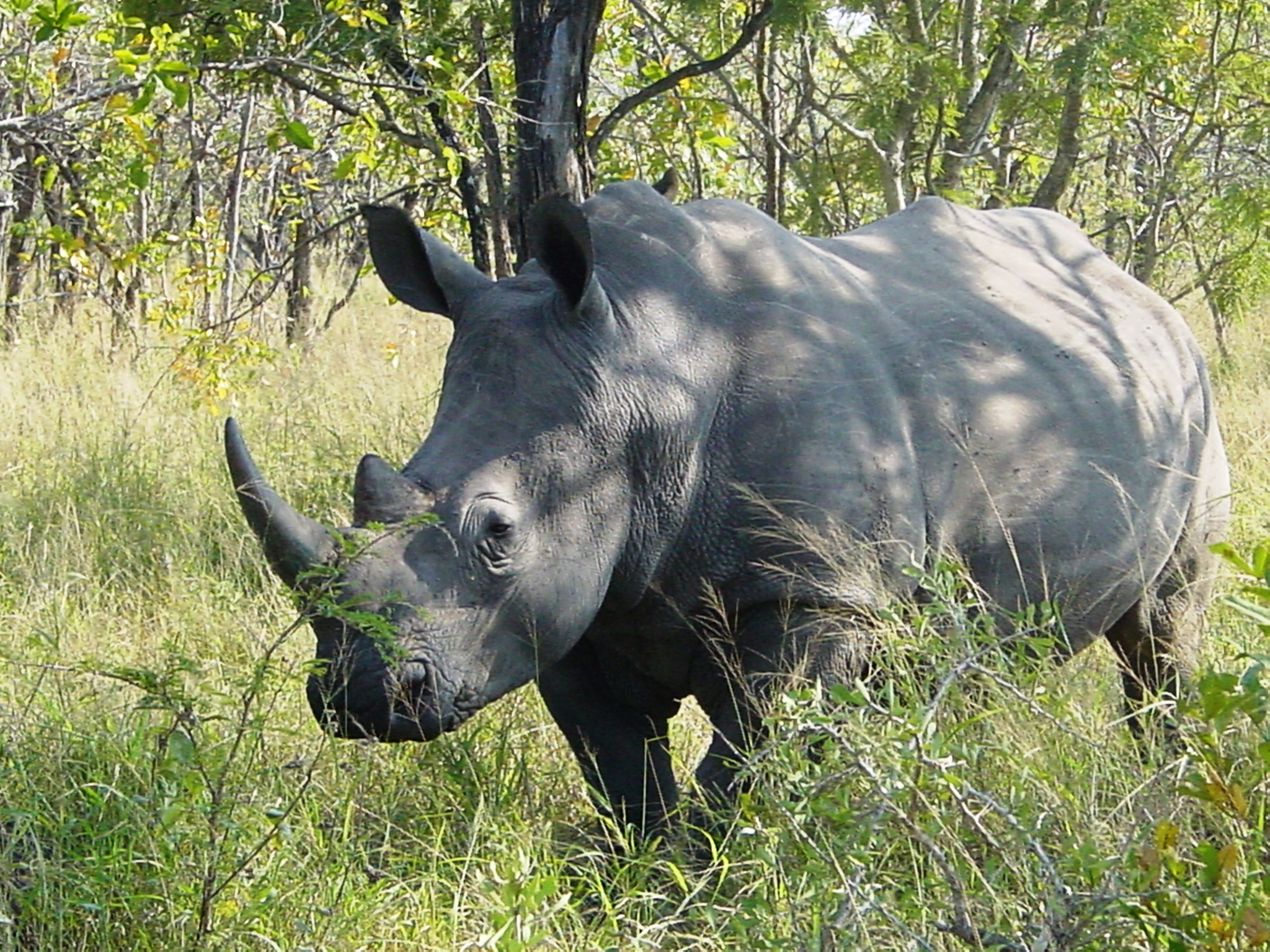 Ceratotherium simum, Kruger National Park